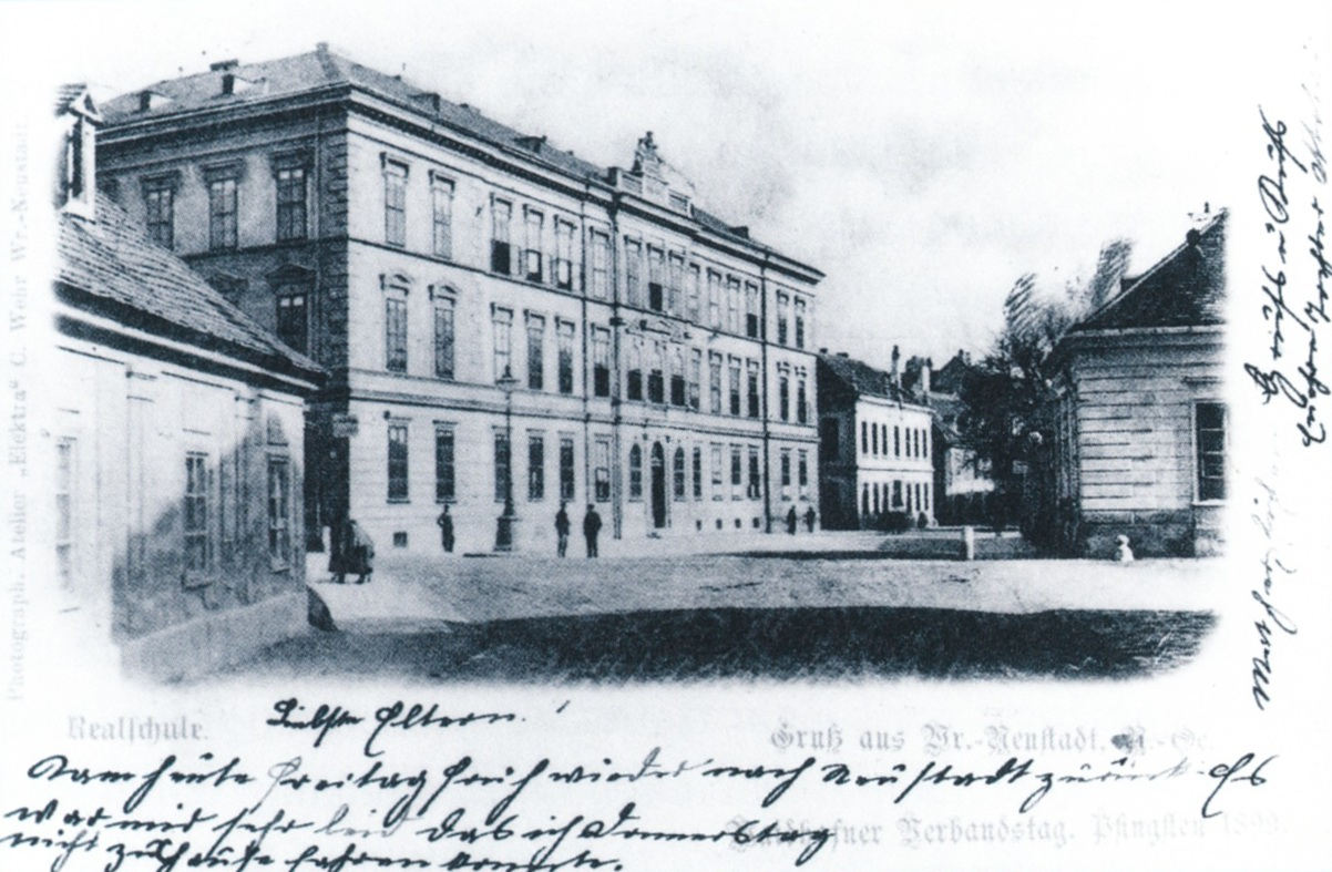 Realschule Wiener Neustadt 1873